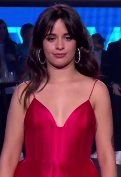 Camila Cabello & Jason Derulo presenting at MTV EMAs 2018